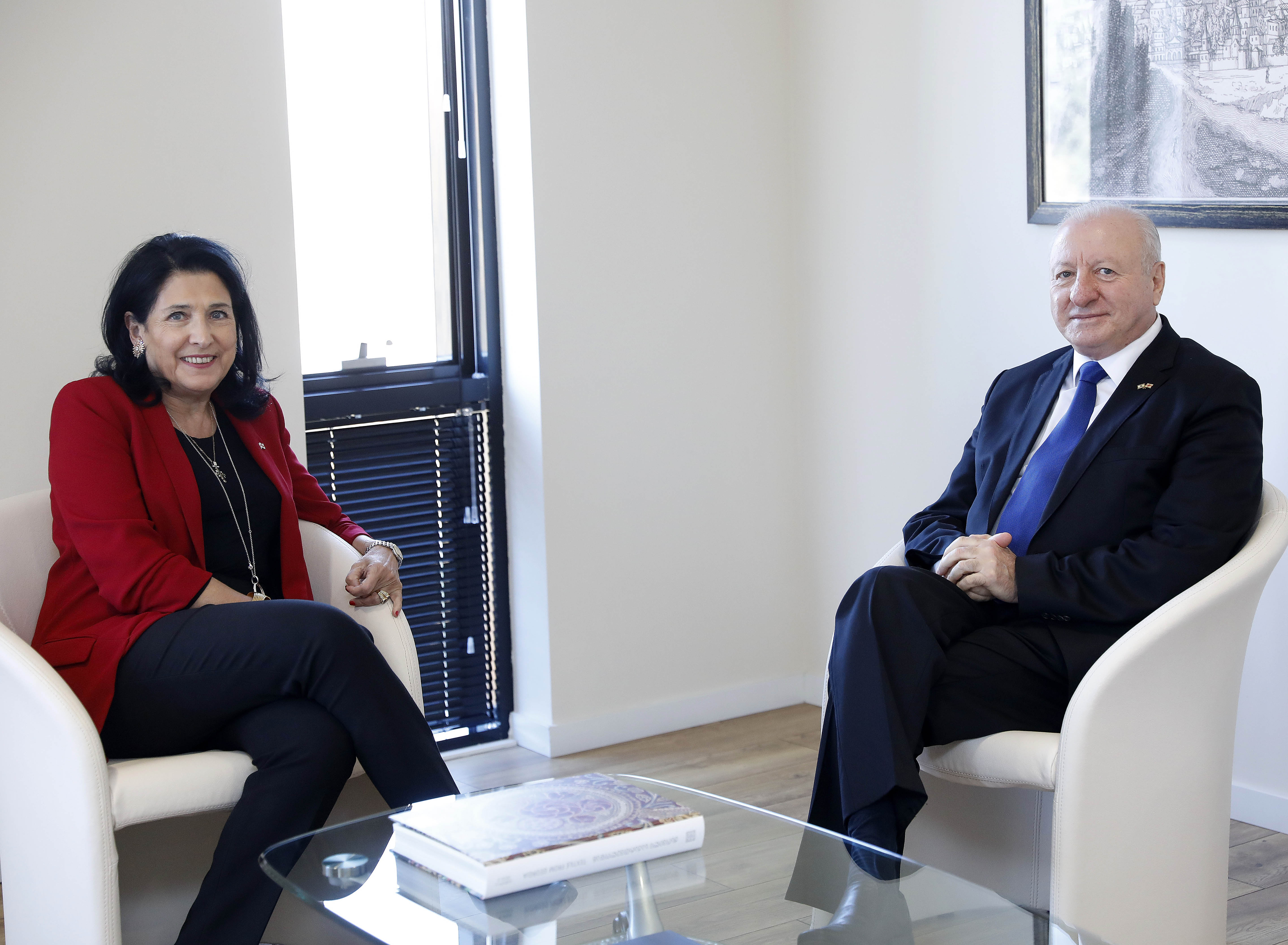 Georgian President Salome Zourabichvili and Israeli Ambassador Shabtai Tsur meeting for his final report before leaving the country.